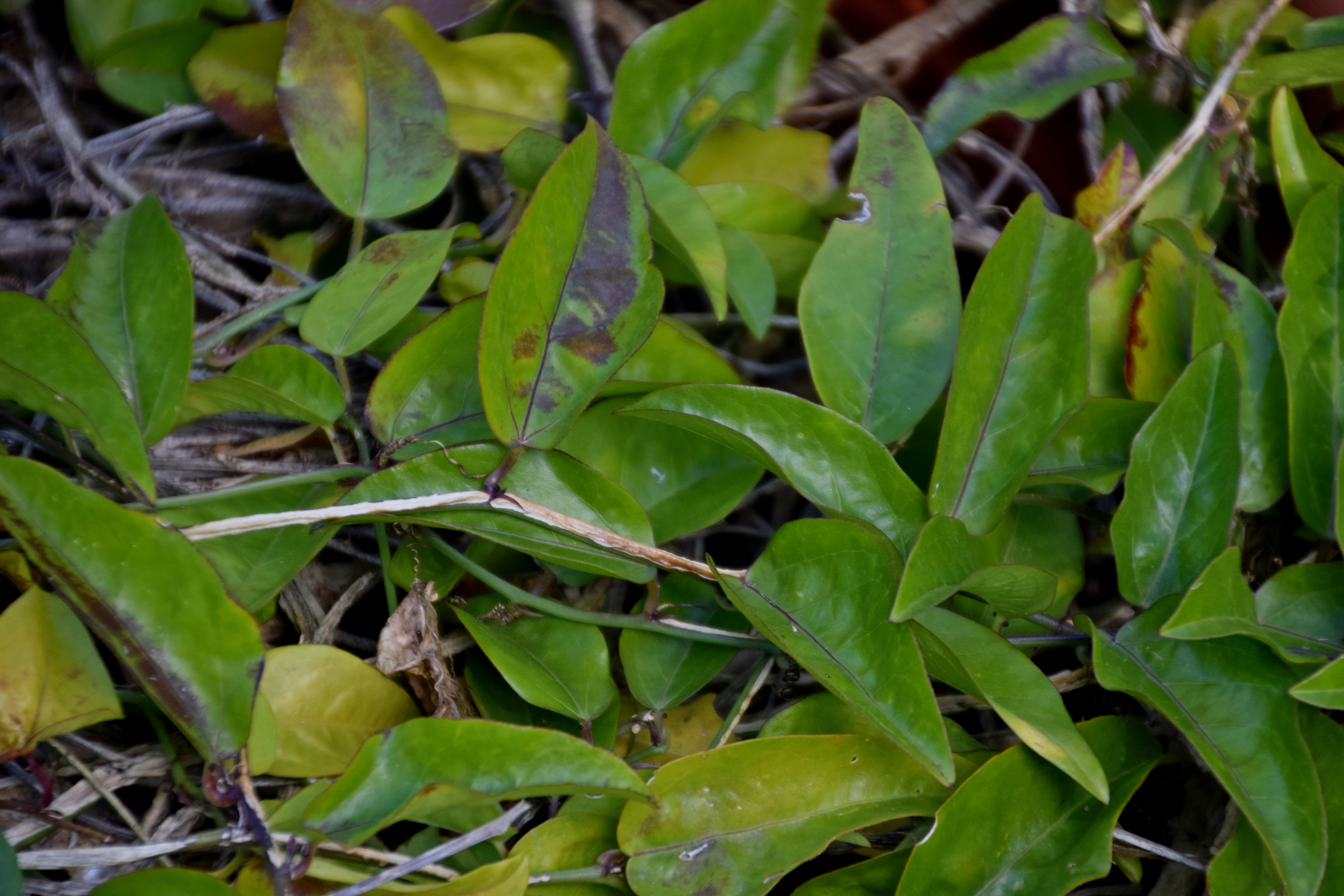 Passiflora auriculata in Jardin des Plantes de Toulouse